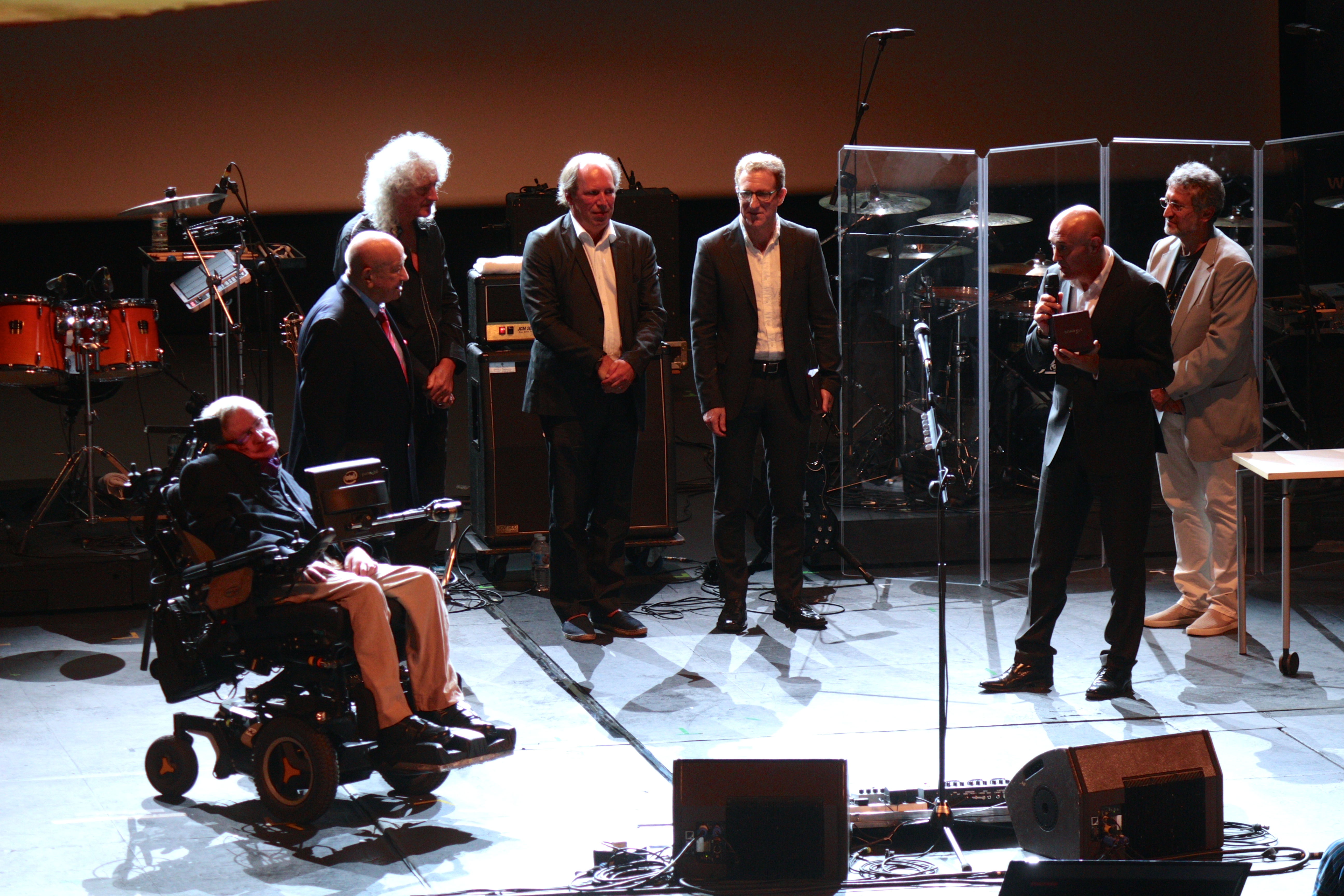 Starmus 2016. Tenerife, Canary Islands.